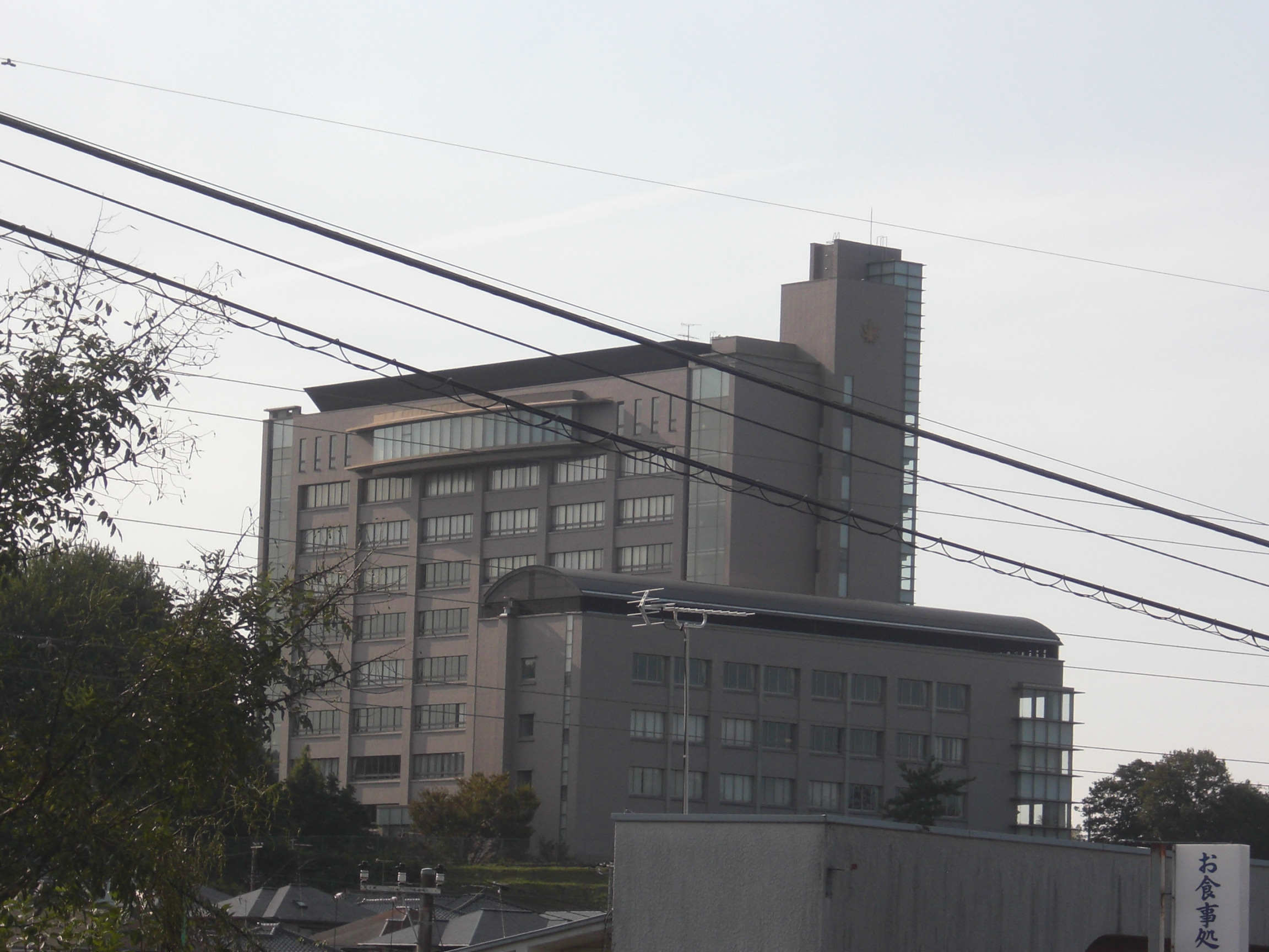 This is a high school in Kisarazu, Chiba, Japan.